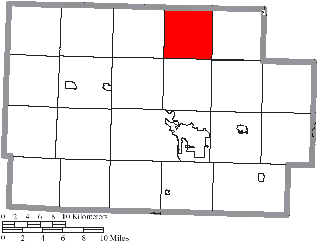 Map of the municipal and township boundaries of Coshocton County, Ohio, United States, as of the 2000 census, with the location of Mill Creek Township highlighted. Township borders are shown only in unincorporated areas in order to differentiate incorporated and unincorporated areas more clearly.